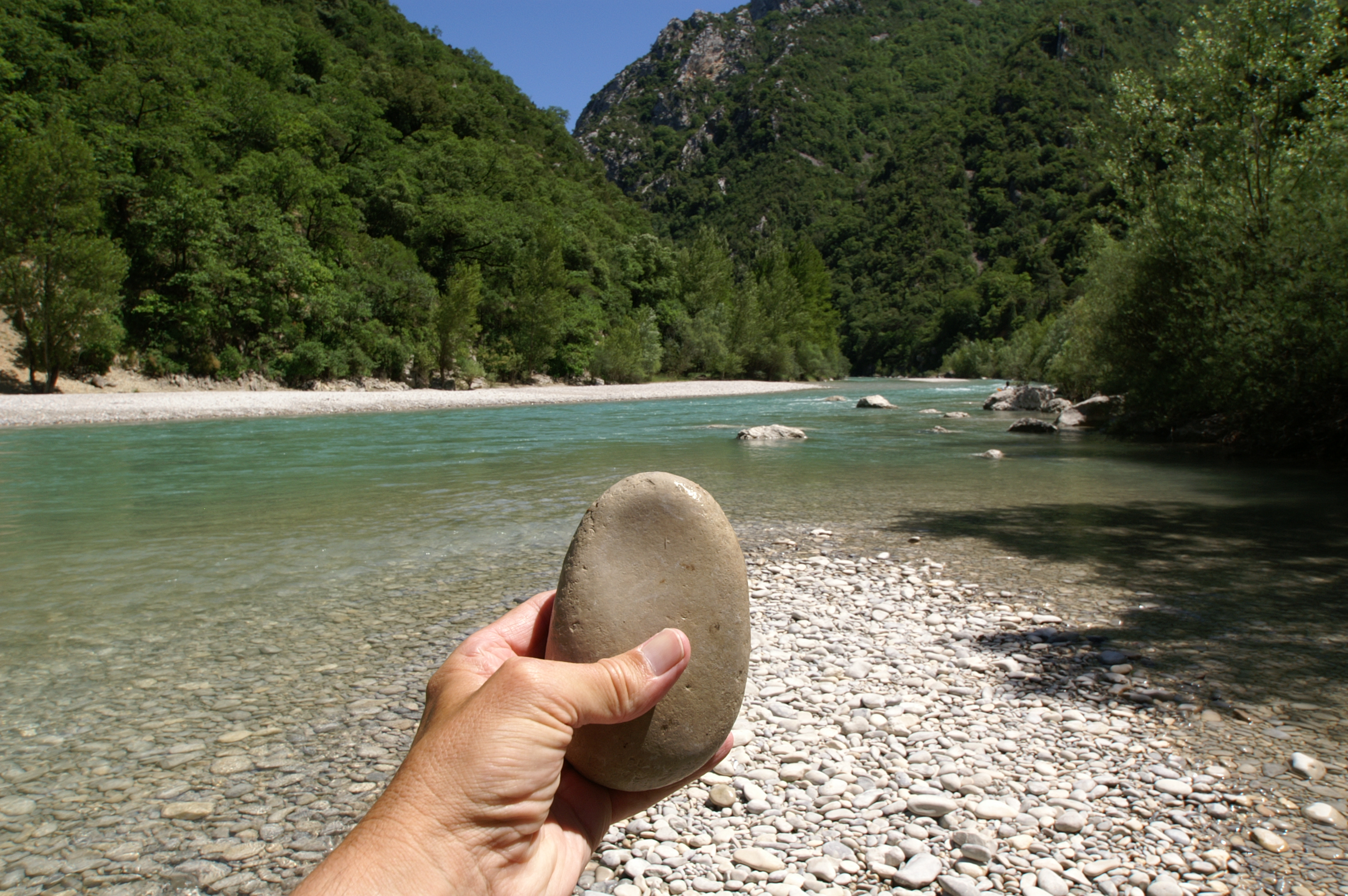 Verdon pebble (France)